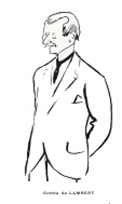 Caricature of Charles de Lambert in "La vie parisienne"